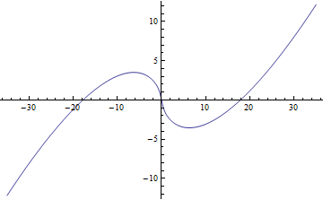 Riemann Siegel Theta function.